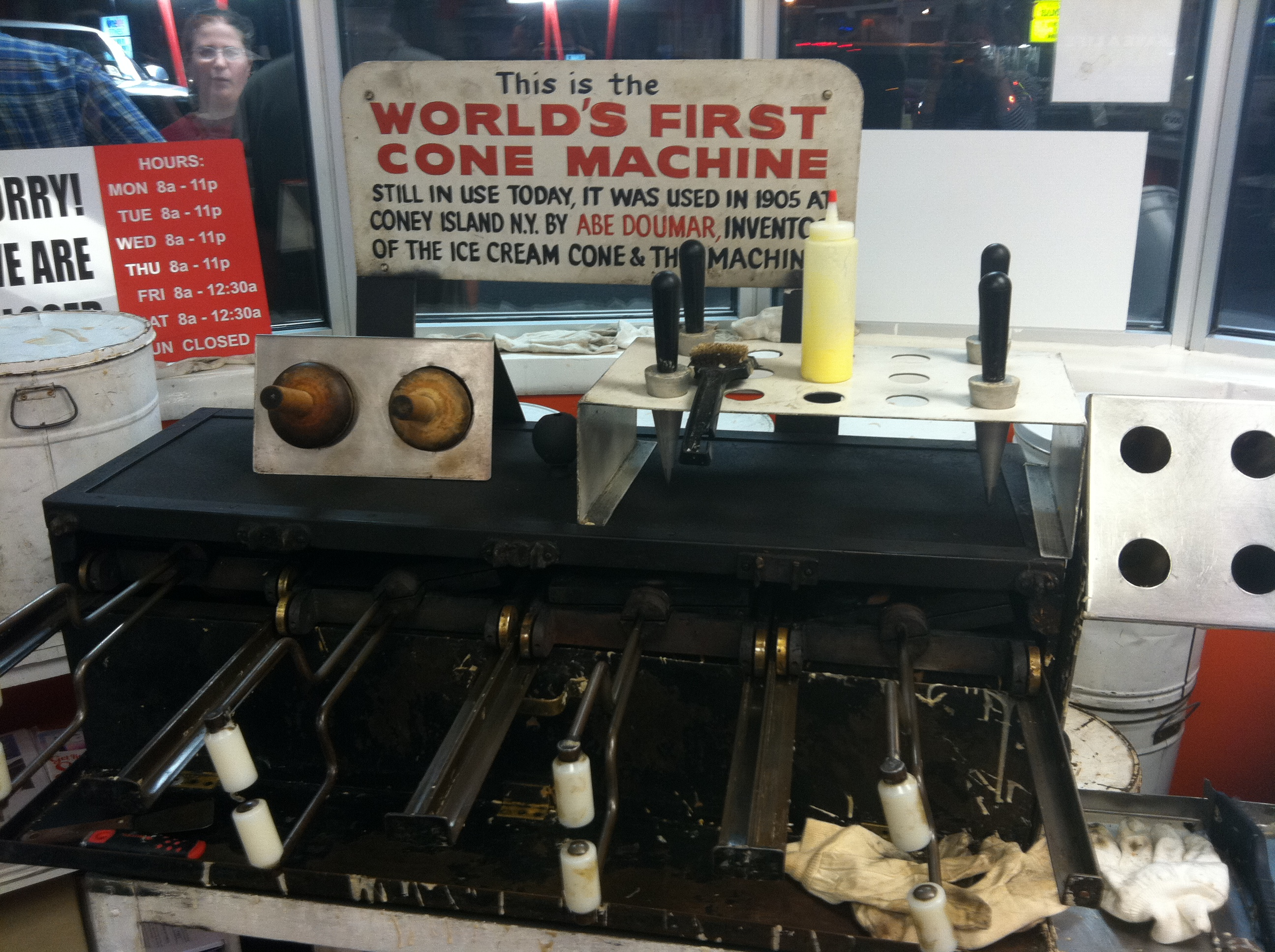 Norfolk, VA